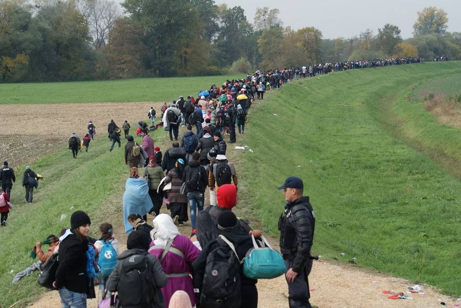 Sodelovanje Slovenske vojske pri podpori Policije - fotoreportaža Rigonce, Dobova, Brežice.